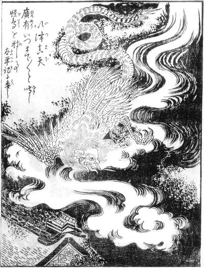 Itsumaden (以津真天, a monstrous bird that appeared over the capital in the Taiheiki) from the Konjaku Gazu Zoku Hyakki (今昔画図続百鬼)